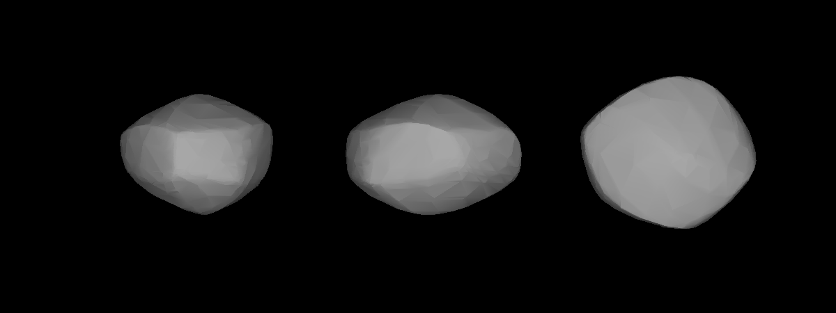 A three-dimensional model of 76 Freia that was computed using light curve inversion techniques.